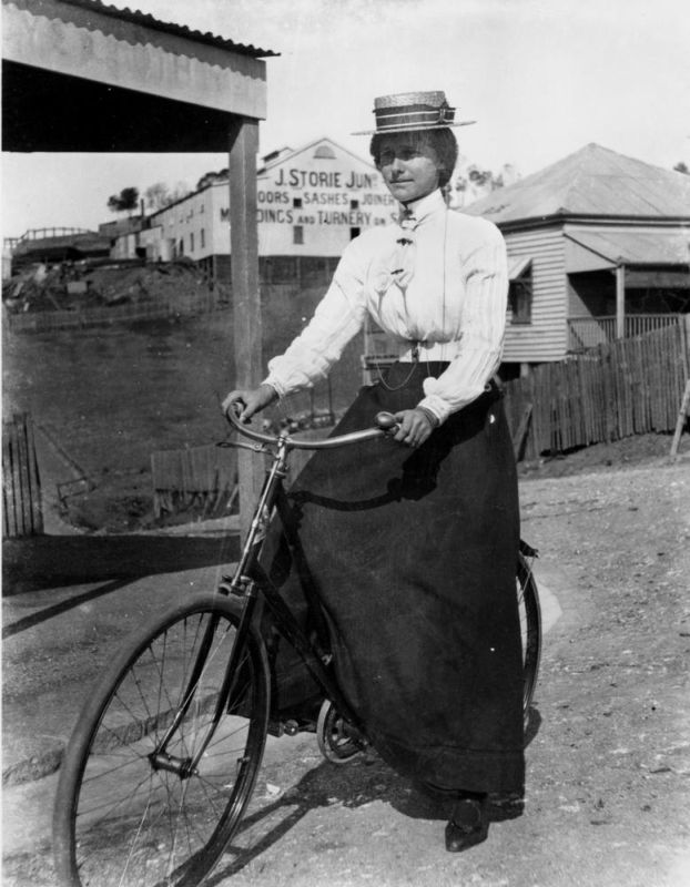 polish cyclist